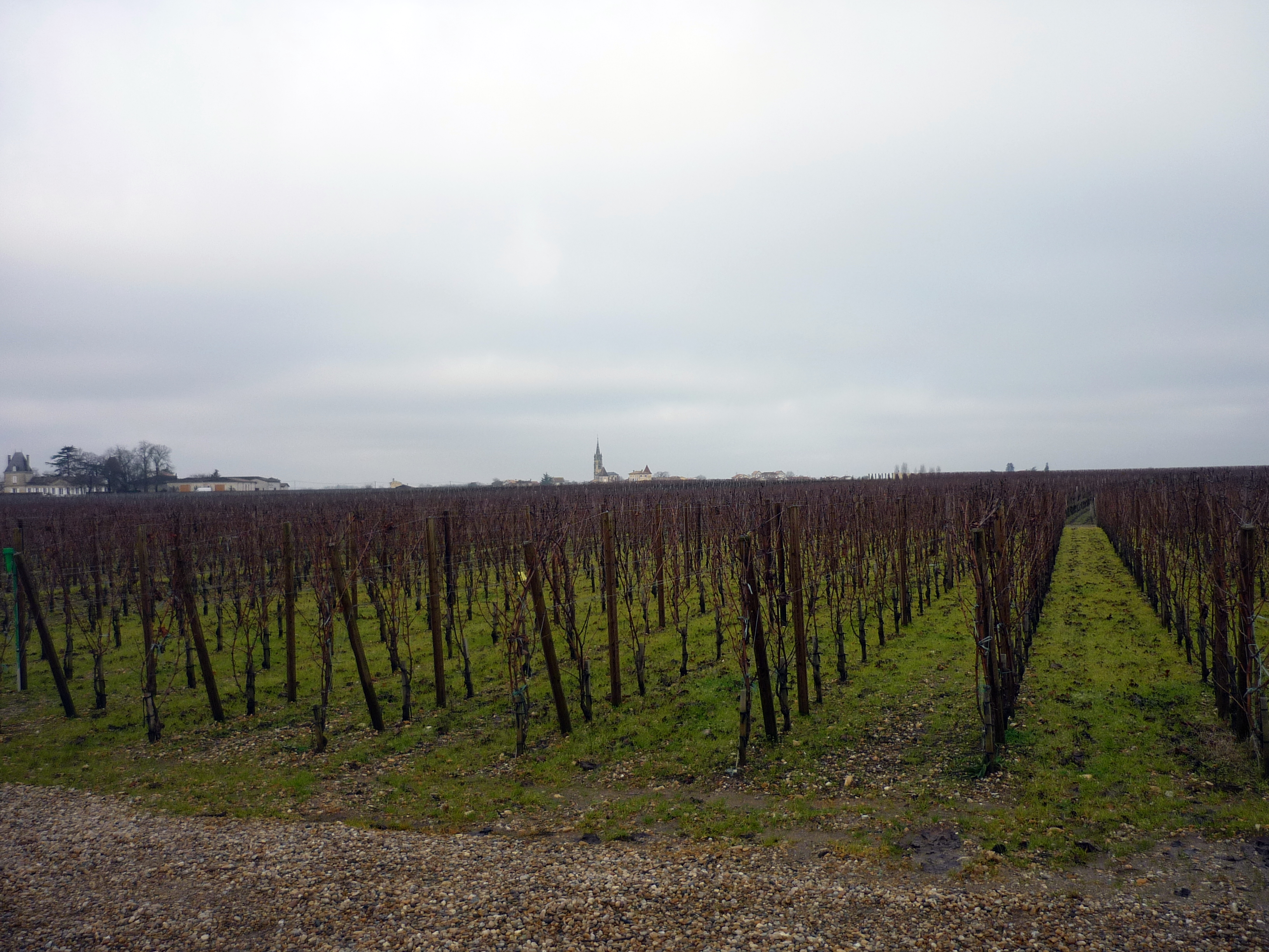 Vineyard from the right bank of Bordeaux in the Pomerol wine region belonging to Château l'Evangile